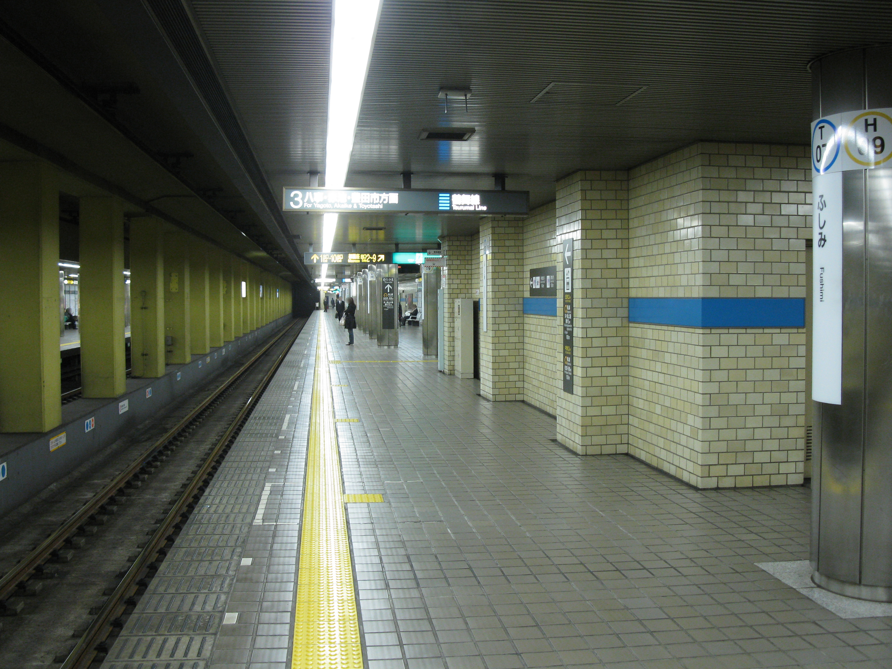 Fushimi Station platform (Nagoya Municipal Subway Tsurumai Line)